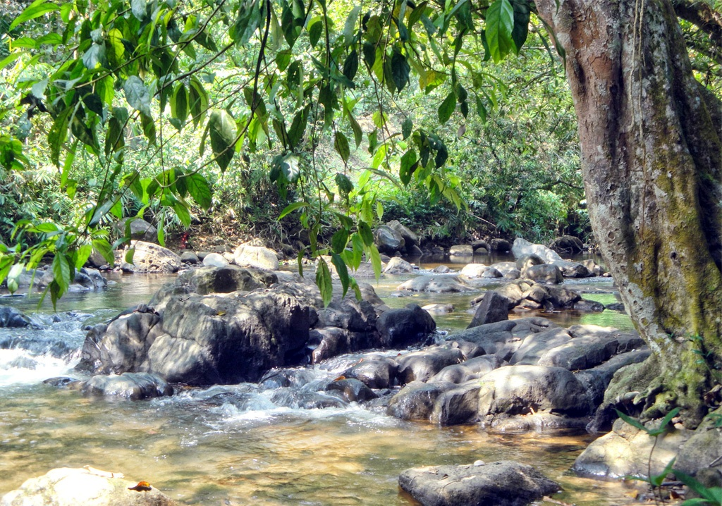 Pareithota01